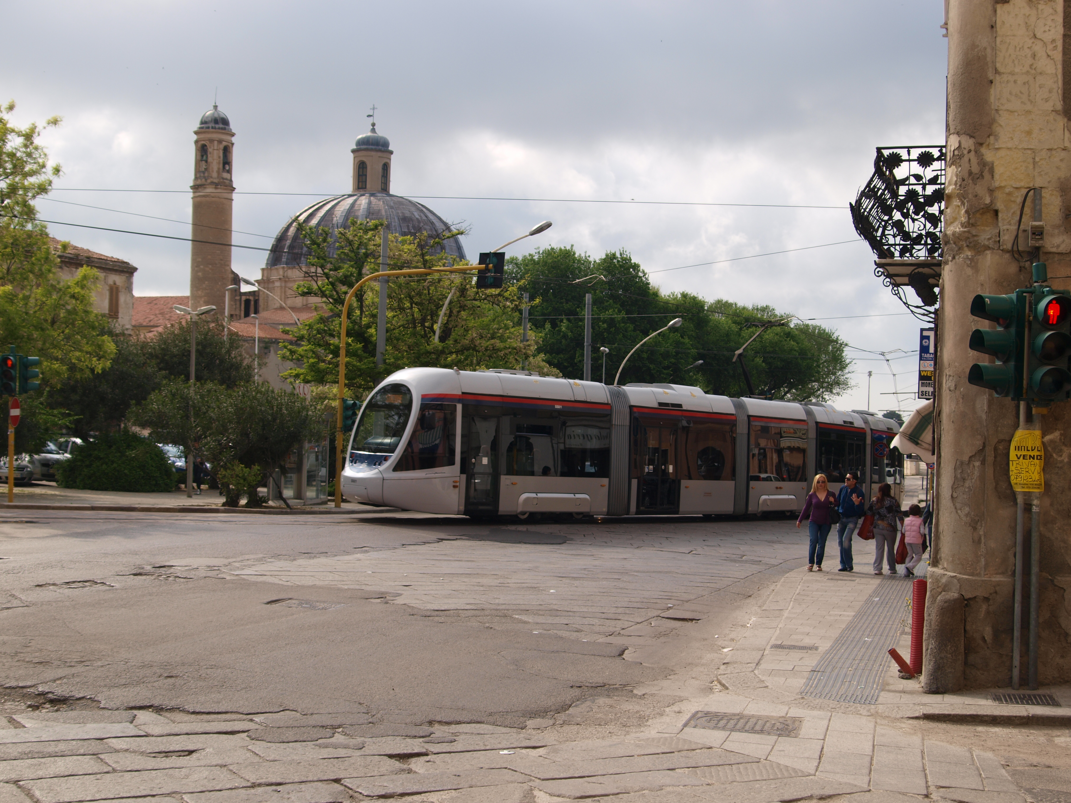 Tram in Sassari